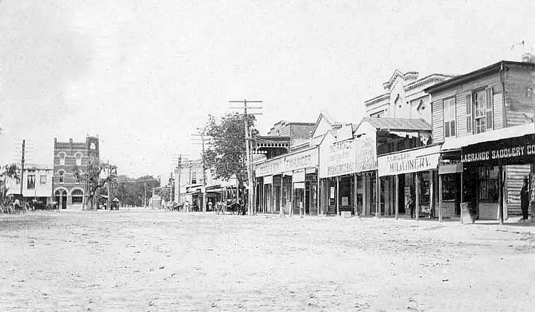 Title: East Side Public Square. La Grange, Texas. Creator: Unknown Date: ca. 1908 Part of: The George W. Cook Dallas/Texas Image Collection Series: Series 3: Photographs Series 3, Subseries 3, Postcards Series 3, Subseries 3d, RPPC, Texas Place: La Grange, Fayette County, Texas Description: Physical Description: 1 photographic print (postcard): gelatin silver, 9 x 14 cm File: a2014_0020_3_3_d_0668_c_lagrangesquare.jpg Rights: Please cite DeGolyer Library, Southern Methodist University when using this file. A high-resolution version of this file may be obtained for a fee. For details see the web page. For other information, . For more information and to view the image in high resolution, see